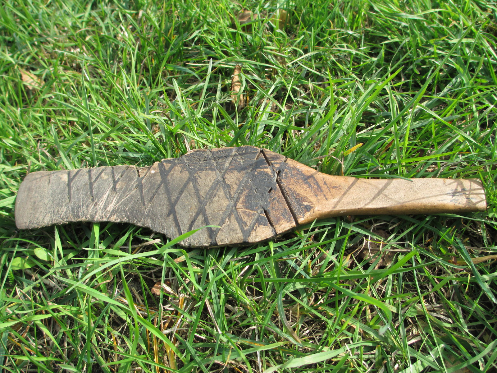 Tool for sharpening scythes